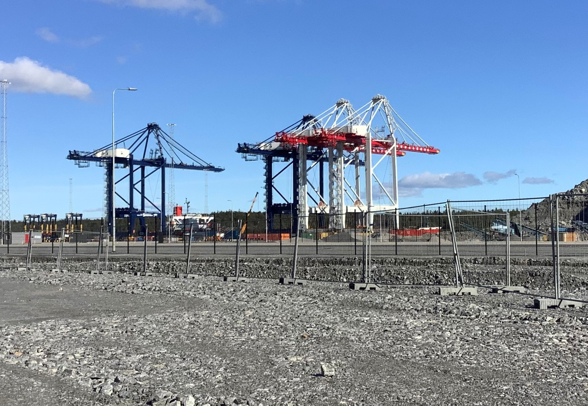 M/S Zhen Hua 32 at the construction site of Stockholm Norvik Port in Nynäshamn, delivering two super postpanamax cranes from China. The one on the left has just been offloaded. The two cranes on the right will be delivered at the port of Dunkerque in France. March 22, 2020.